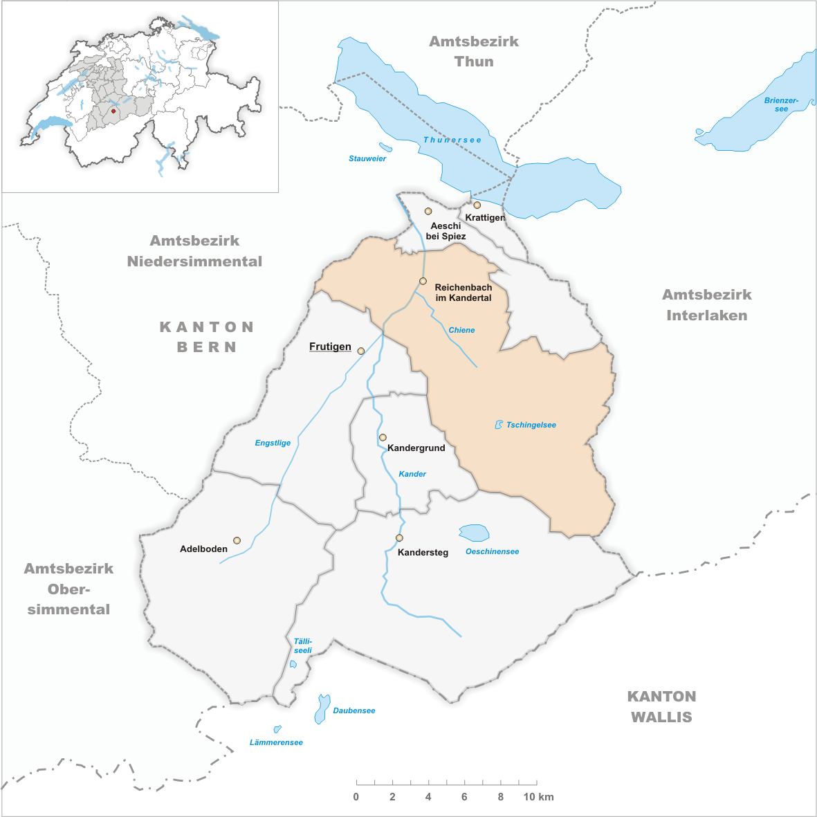 Municipality Reichenbach im Kandertal